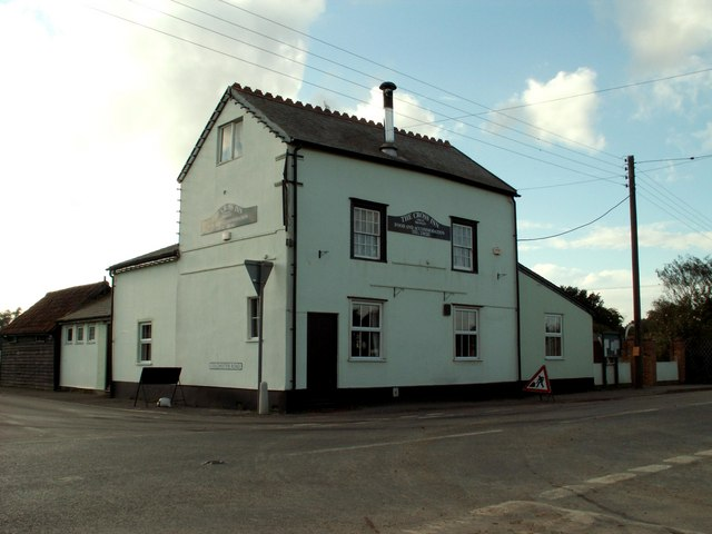 'The Cross Inn' at Bromley Cross, Essex